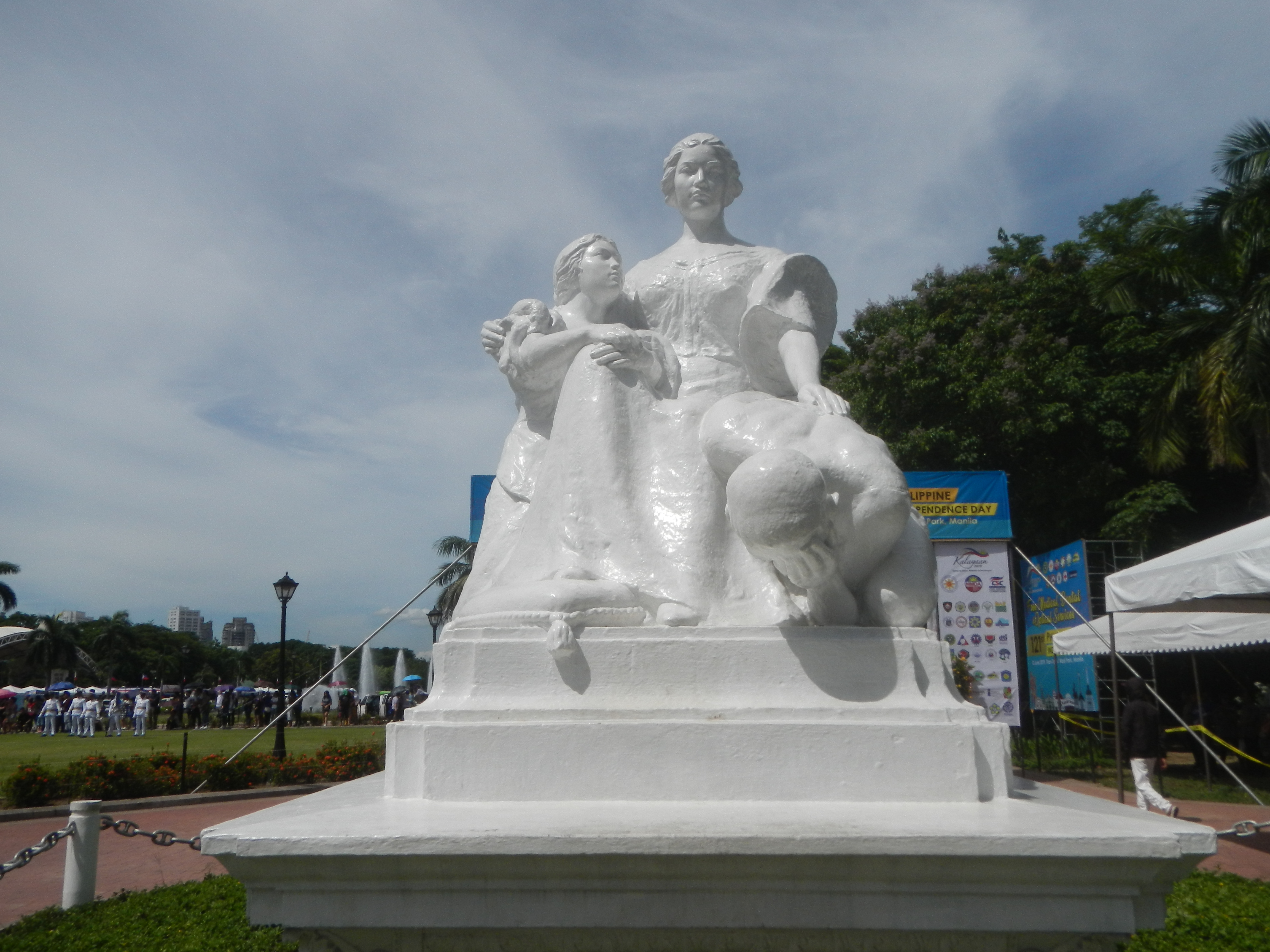 Statue of the Sentinel of Freedom Lapu-Lapu Agrifina Circle Rizal Park Roxas Boulevard Ermita Luneta 14°34'57"N 120°58'42"E Philippine highway network (Note: Judge Florentino Floro, the owner, to repeat, Donor Florentino Floro of all these photos hereby donate gratuitously, freely and unconditionally Judge Floro all these photos to and for Wikimedia Commons, exclusively, for public use of the public domain, and again without any condition whatsoever).